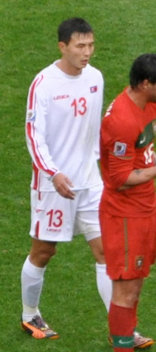 Pak Chol-Jin, North Korean footballer, during the game North Korea vs Portugal